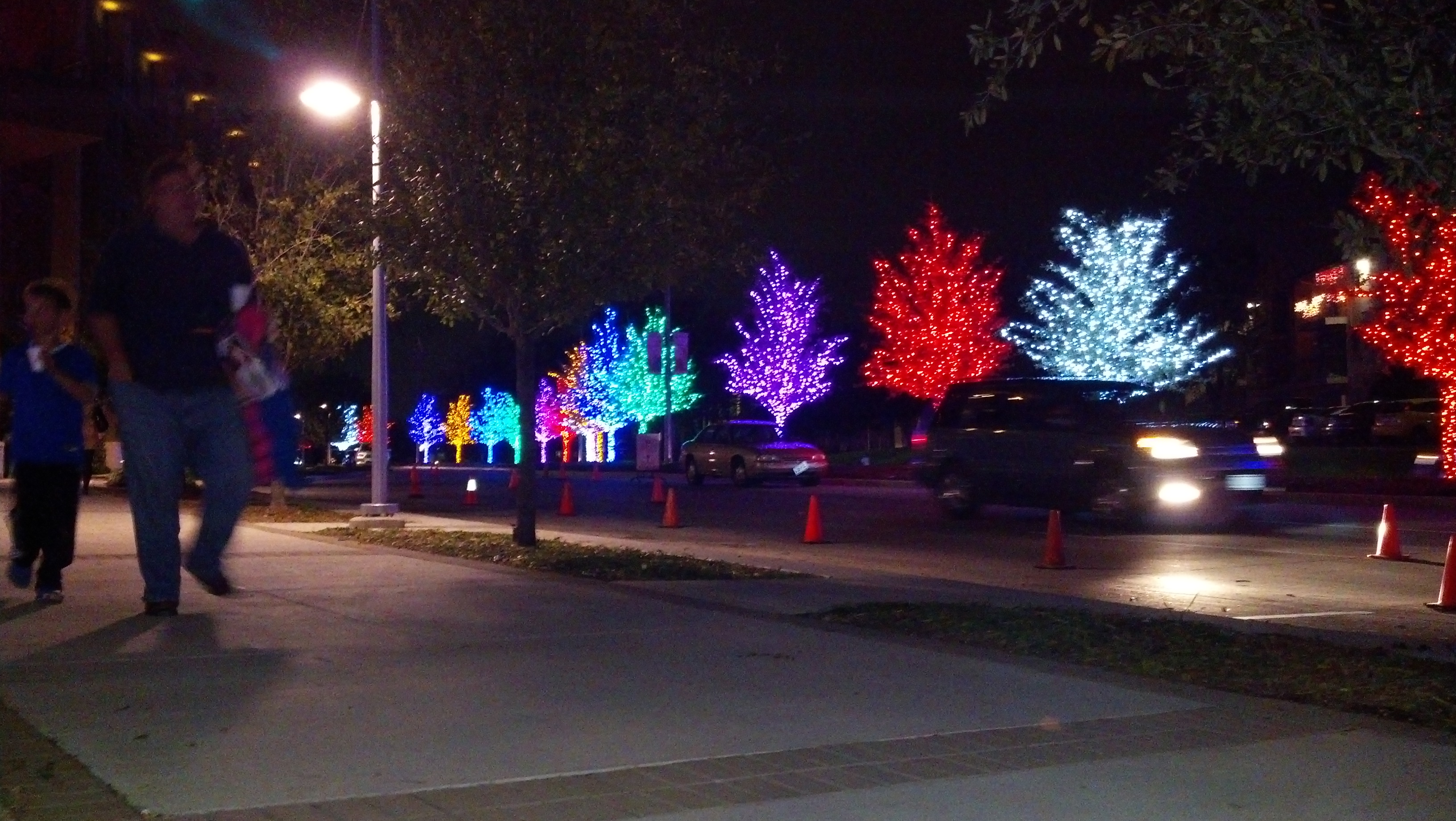 Northwest side of Vitruvian Park facing towards Vitruvian Way in Addison, Texas.